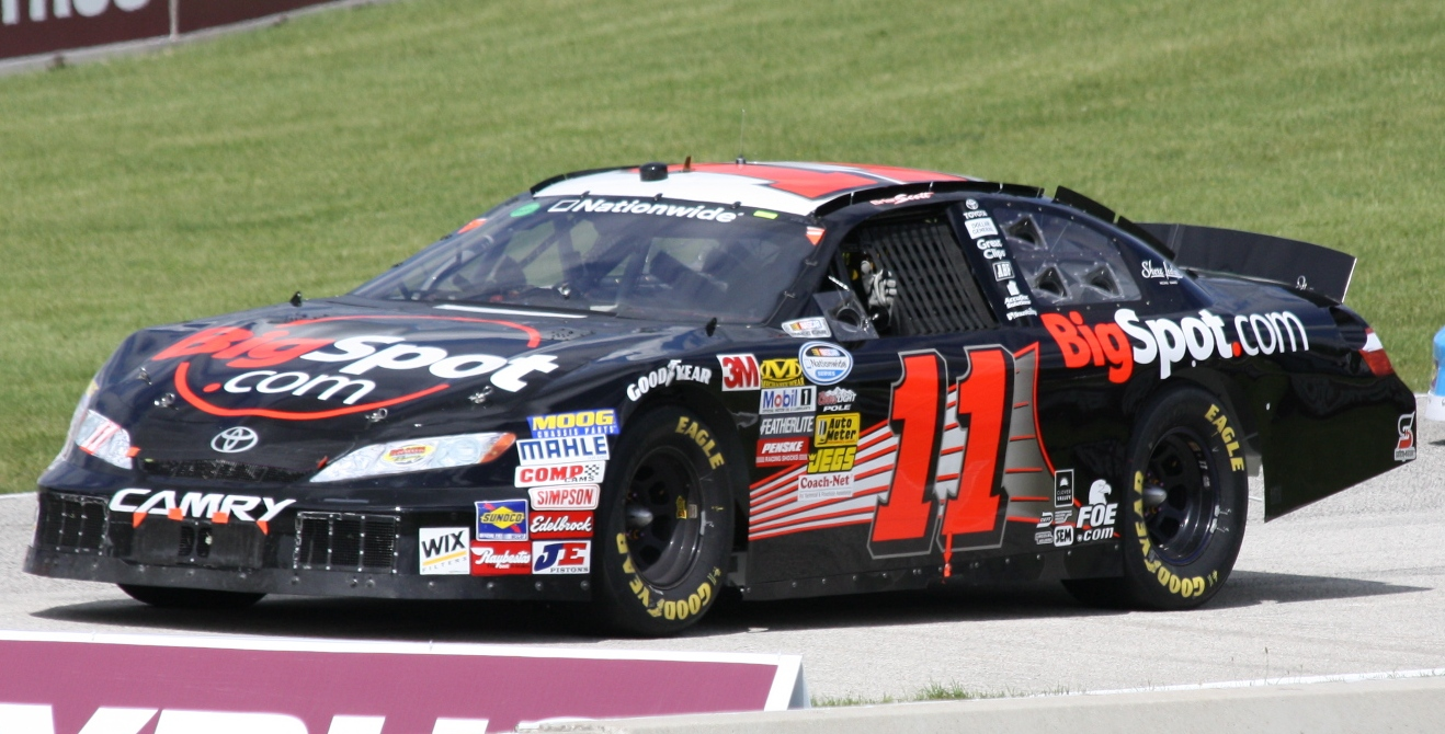 The NASCAR racecar for driver Brian Scott at the 2010 Bucyrus 200 at Road America.